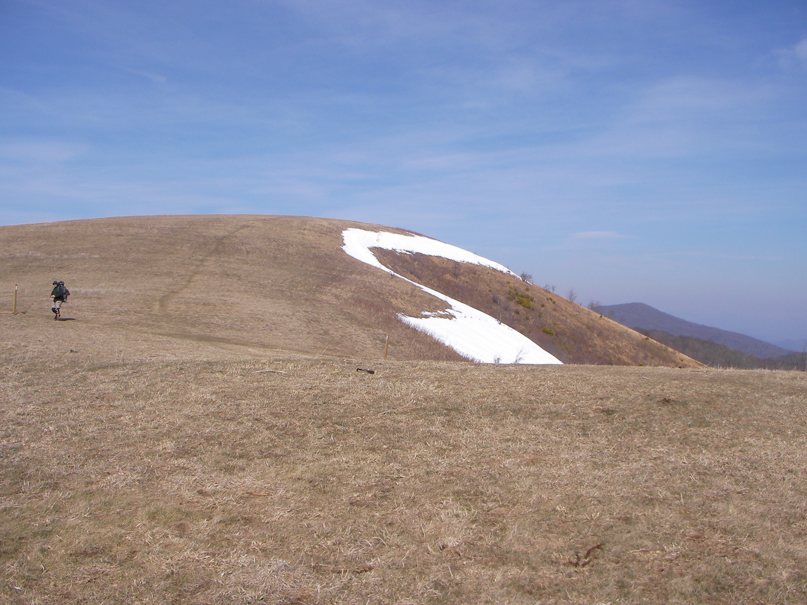 The Appalachian Trail crosses the grassy bald area atop Max Patch Mountain, a 4,616-ft (1,407m) summit in the Bald Mountains of the U.S. states of North Carolina and Tennessee.